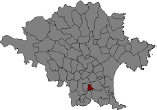 Location of Sant Miquel de Fluvià in Alt Empordà